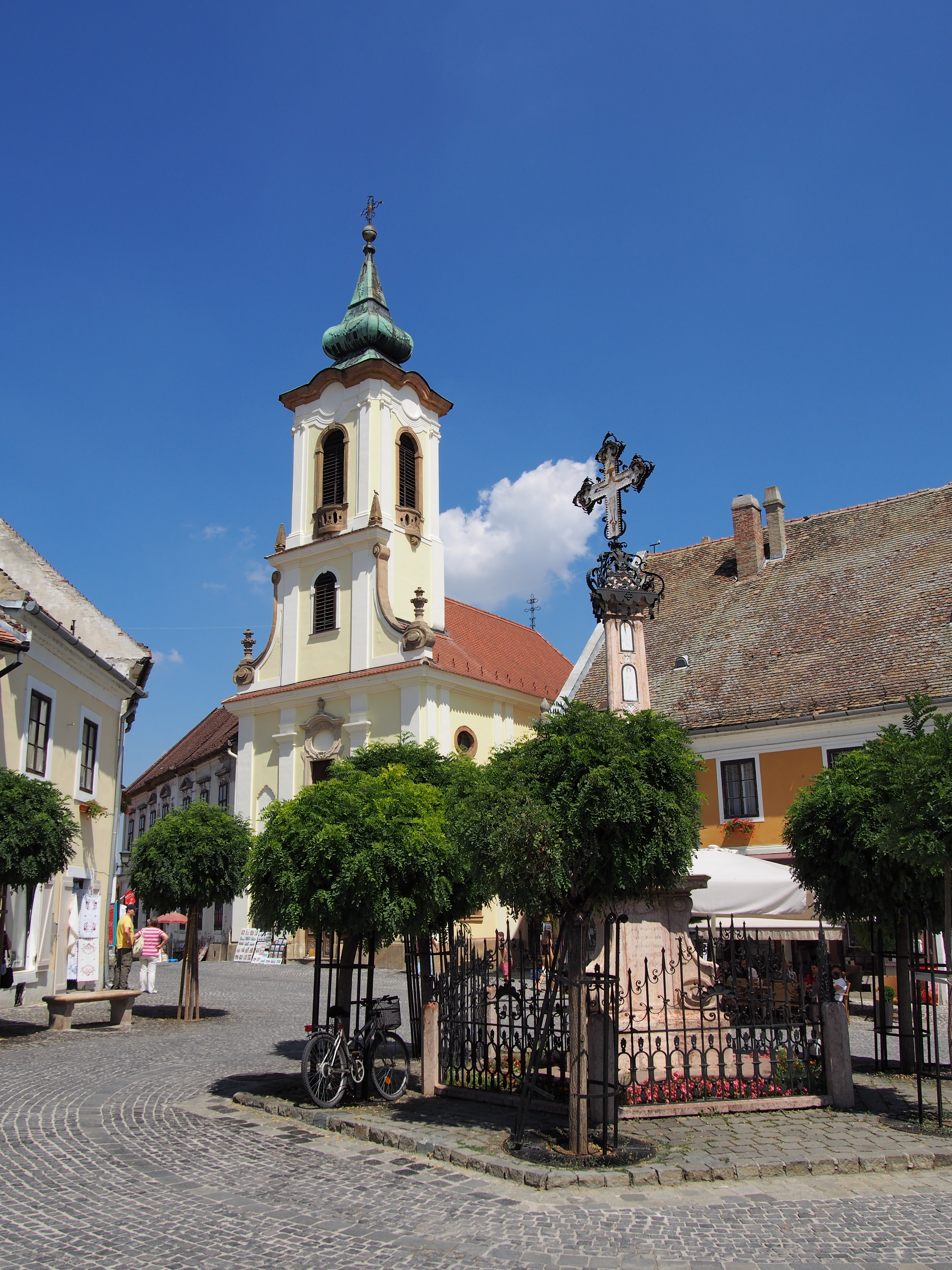 Szentandre, Fő tér - Fo Square with Serbian Orthodox church of Holly Annunciation. Hungary. Српски (ћирилица): Сзентандреја, главни трг Фо и српска Благовештенска црква. Мађарска.